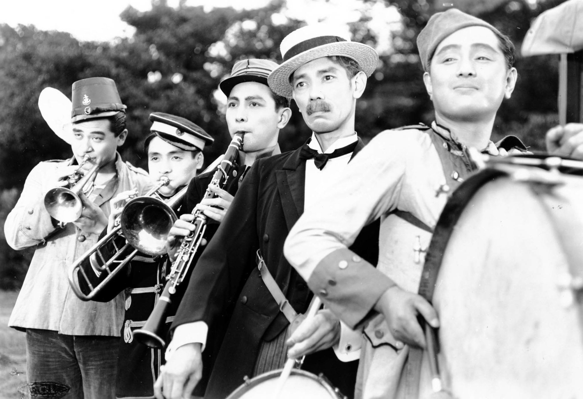 Five Men in the Circus (サーカス五人組 ) directed by Mikio Naruse - 1935